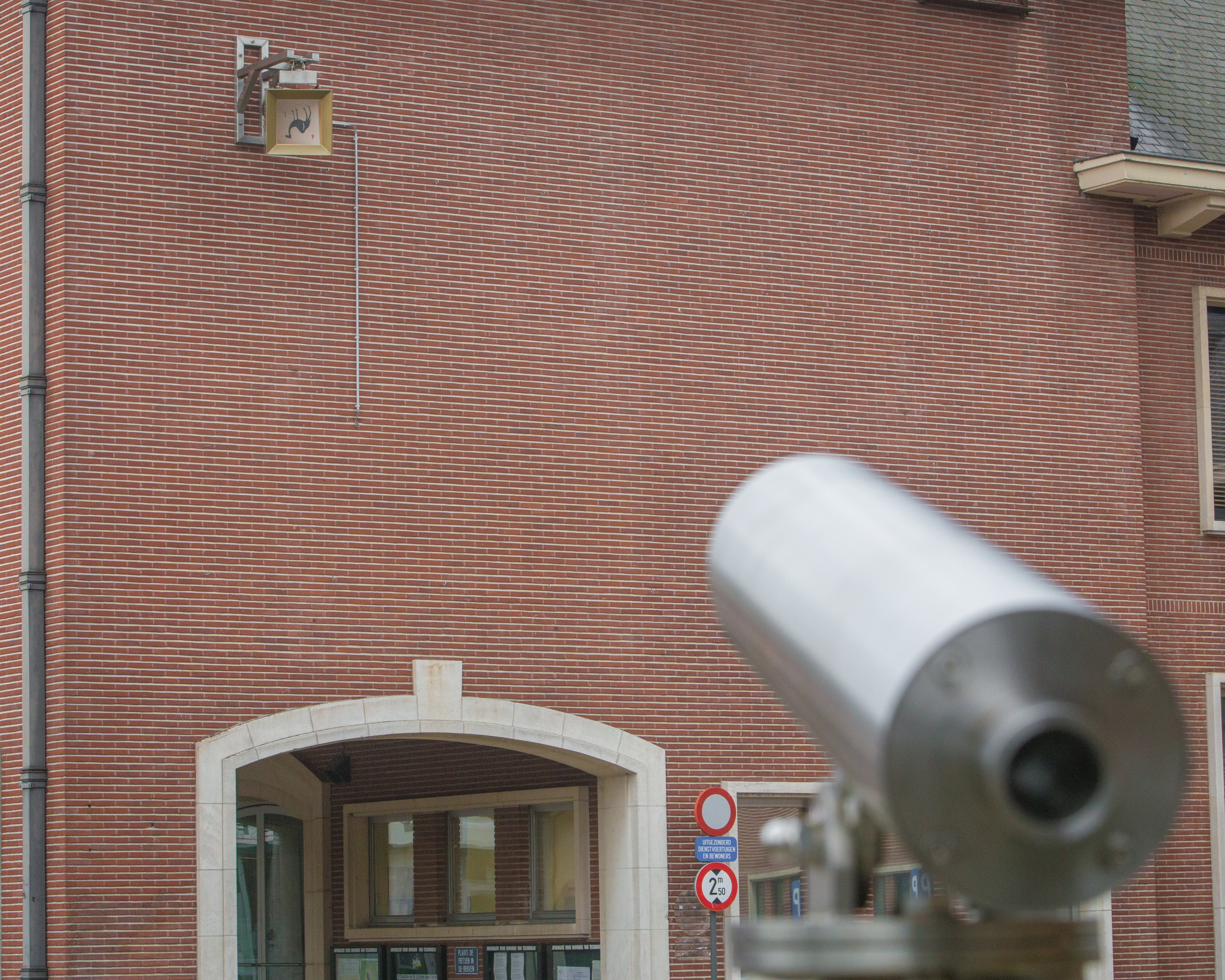 Loois Museum voor Aktuele Kunst, Tessenderlo.